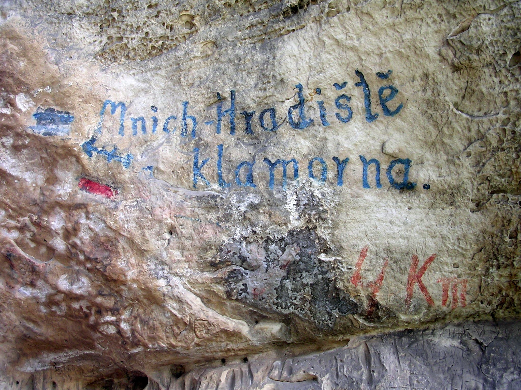 Drábské světničky, Mladá Boleslav District, Central Bohemian Region, the Czech Republic. Old hiking signs.